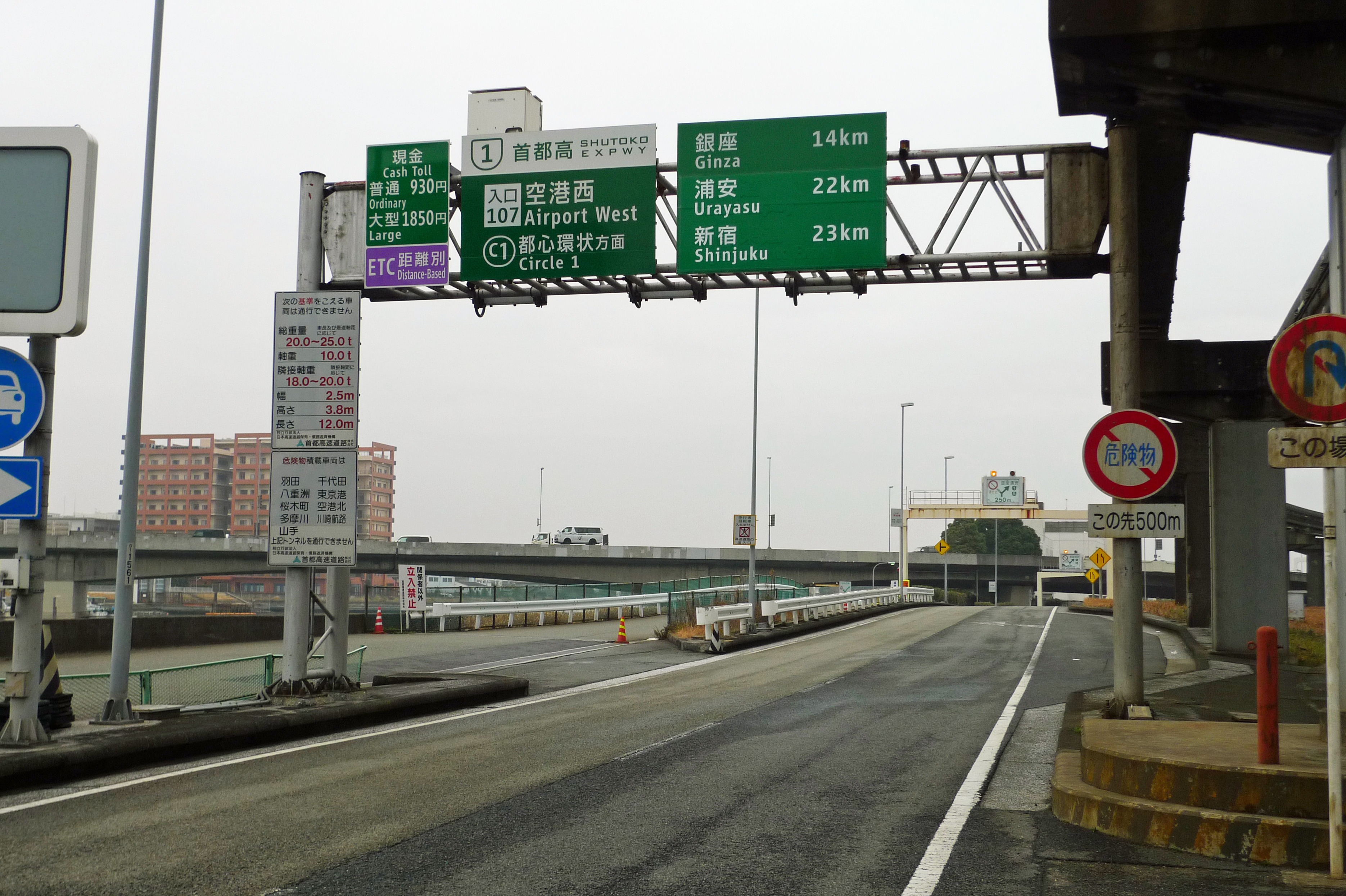 Airport West Interchange near the Tokyo Monorail Seibijo Station